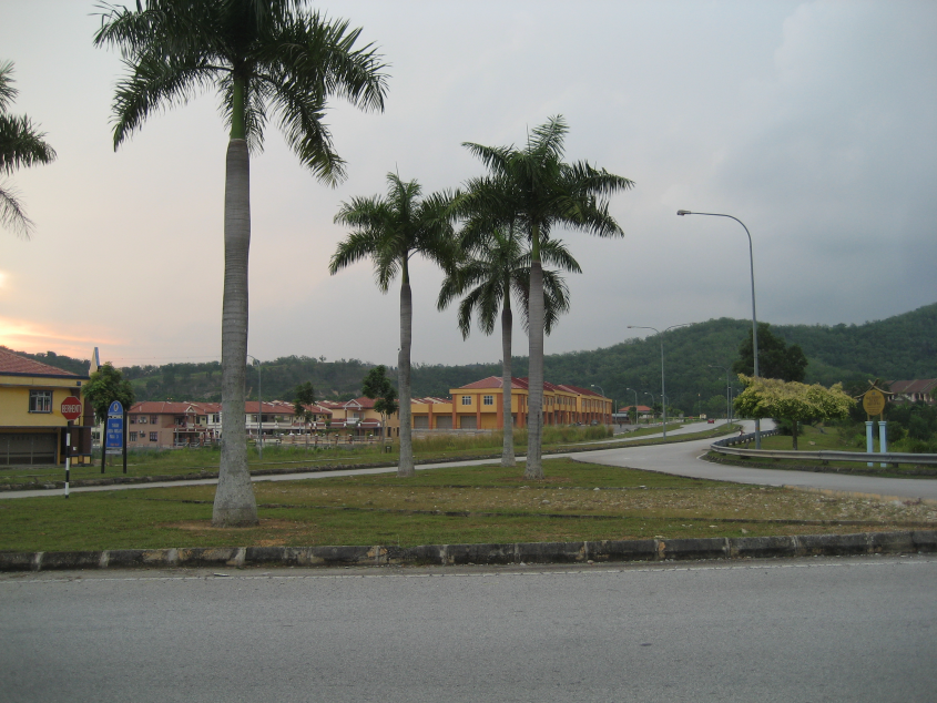 I took this photo in Nilai, Negeri Sembilan, Malaysia in 2007.